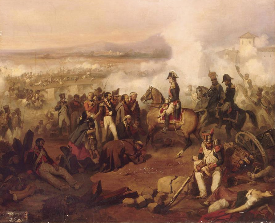 Marshal Nicolas Soult at the battle of Oporto